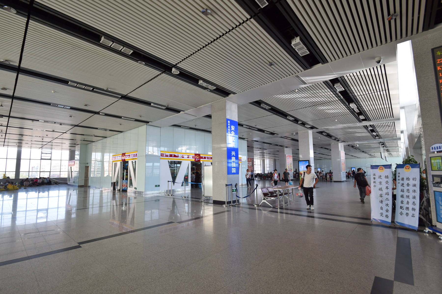 Consourse of Baotou Railway Station